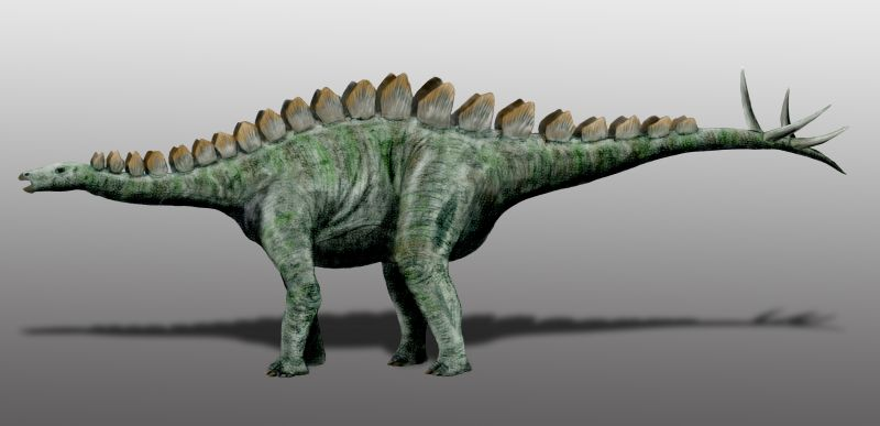 Miragaia longicollum, Late Jurassic of Portugal. Digital.